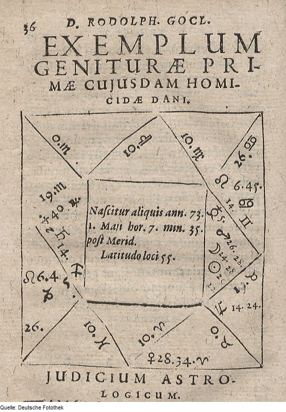 Original image description from the Deutsche FotothekAstrologie & Horoskop